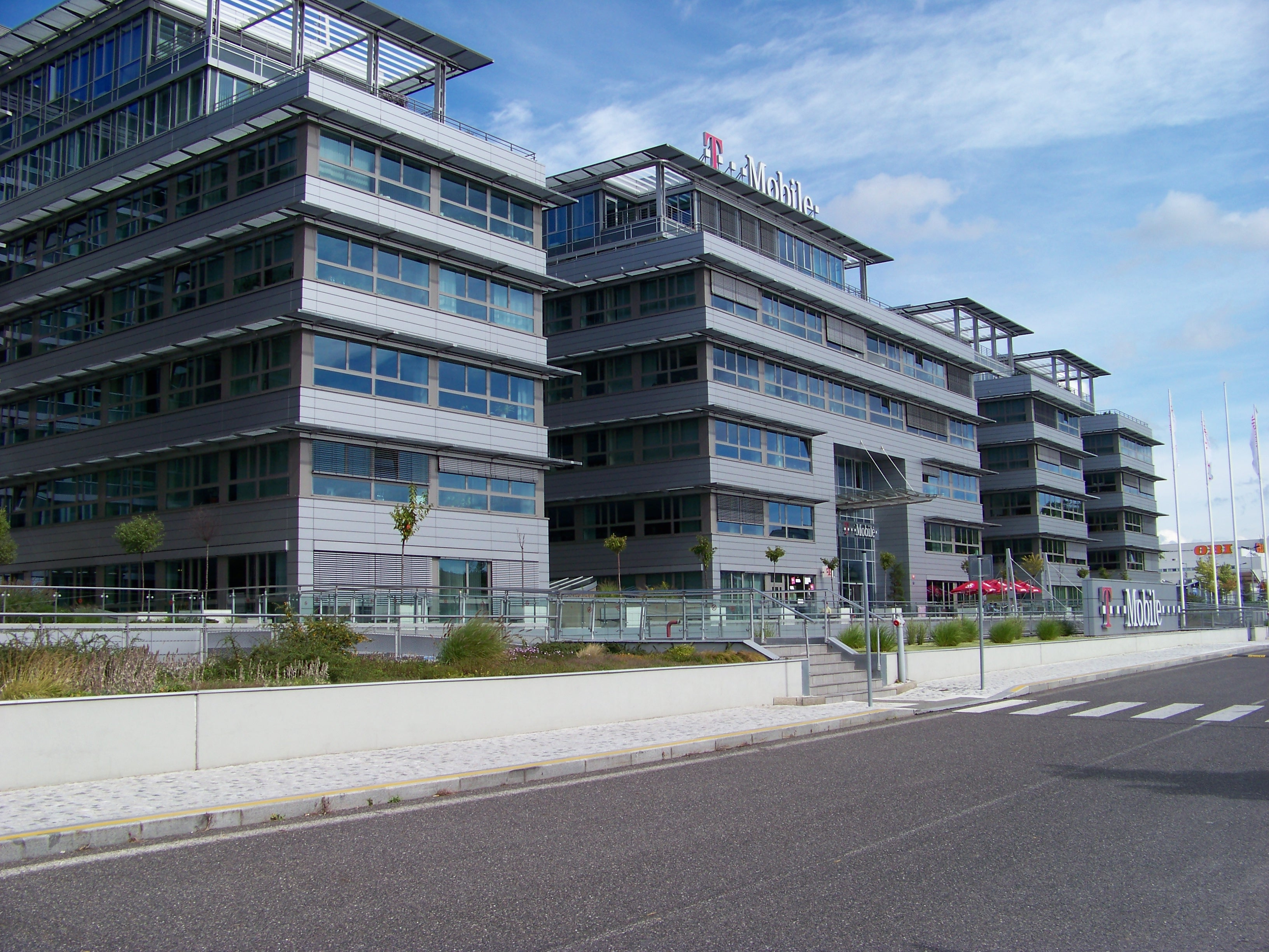 Prague-Chodov, the Czech Republic. Tomíčkova street, T-Mobile CZ headquarters.